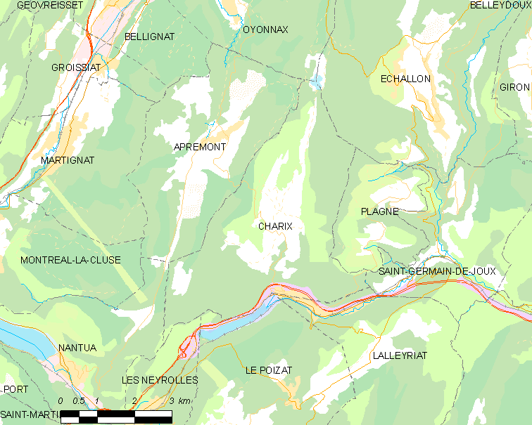 Map of French commune: Charix Map commune FR insee code 01087.png